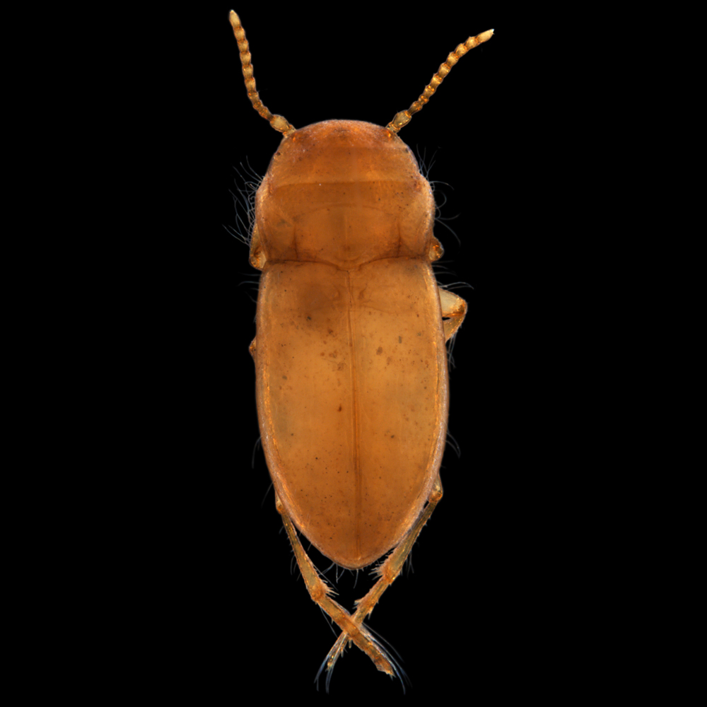 Limbodessus bennetti is a carnivorous subterranean water beetle. It is the first stygobitic Dytiscid to be recorded in the Pilbara.